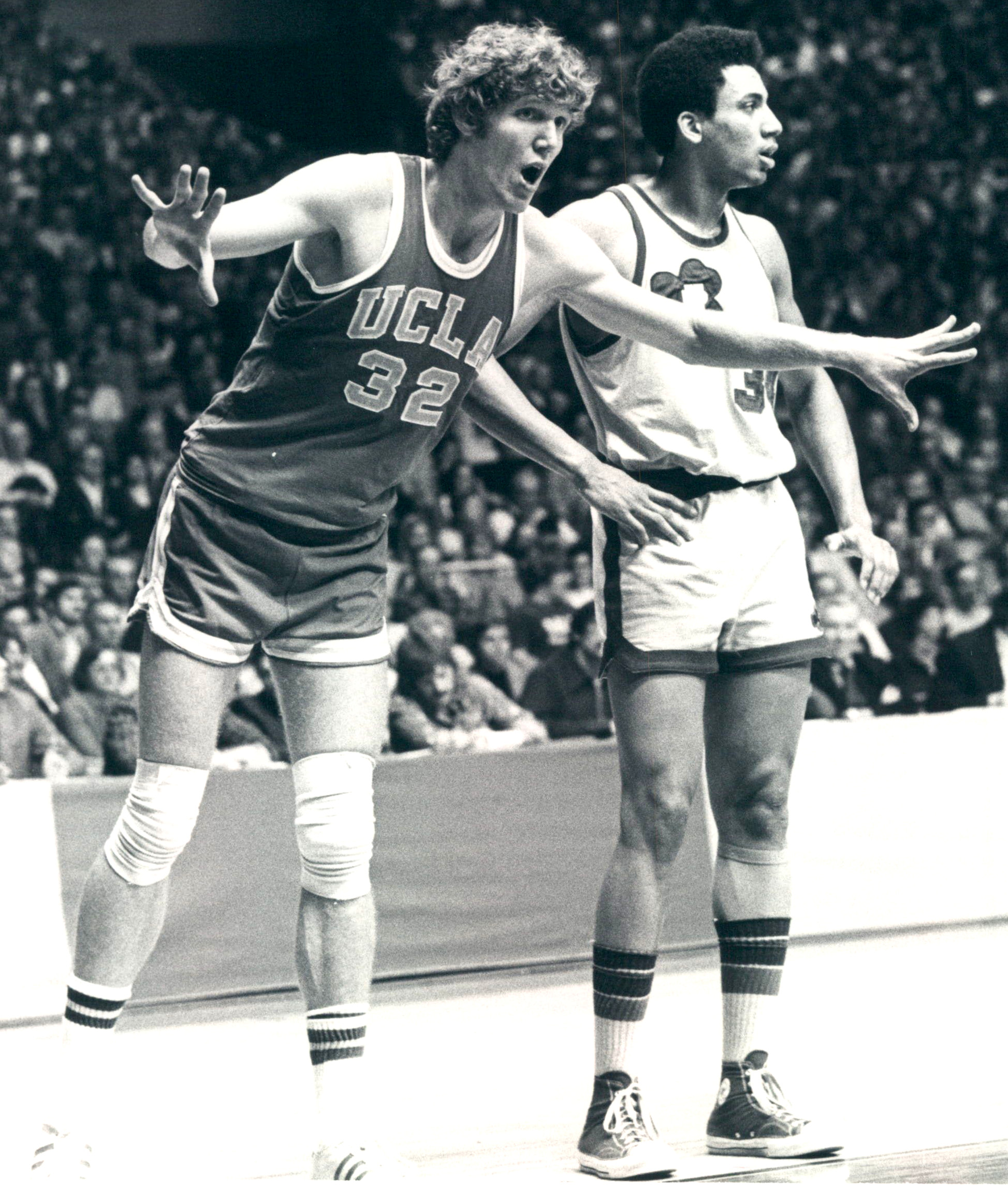 Bill Walton as a member of the UCLA Bruins